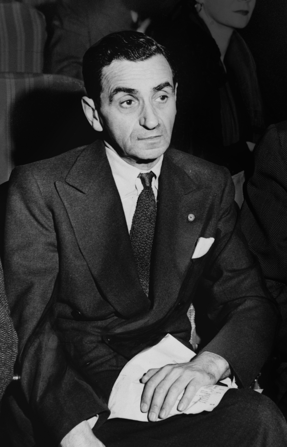 Irving Berlin, from a larger photo of him with Rodgers and Hammerstein and Helen Tamiris, watching auditions on stage of the St. James Theatre